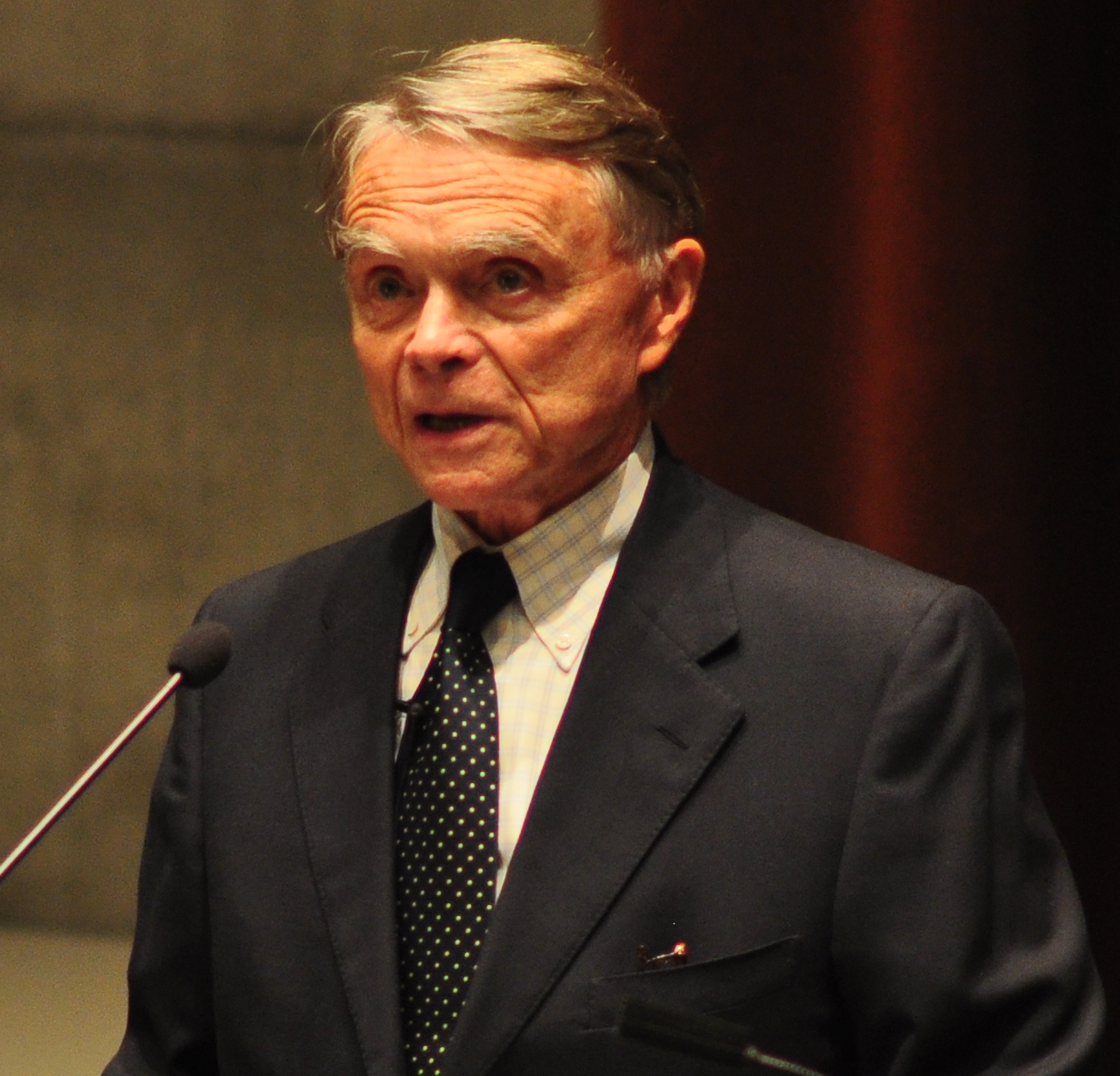 Chris Bayley (King County Prosecutor 1971-1979) giving a talk based on his book Seattle Justice: The Rise and Fall of the Police Payoff System in Seattle (2015) at the central library, Seattle, Washington.